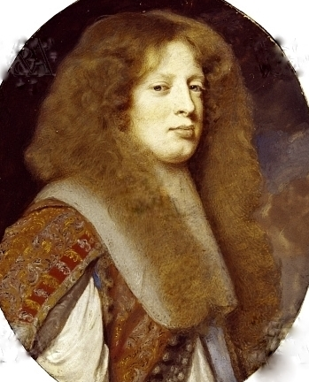 Anthony Ashley-Cooper, 2nd Earl of Shaftesbury (1652-1699)